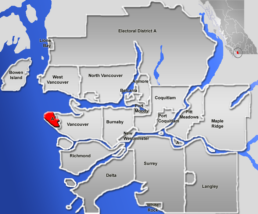 Location of University Endowment Lands, Greater Vancouver Area, British Columbia